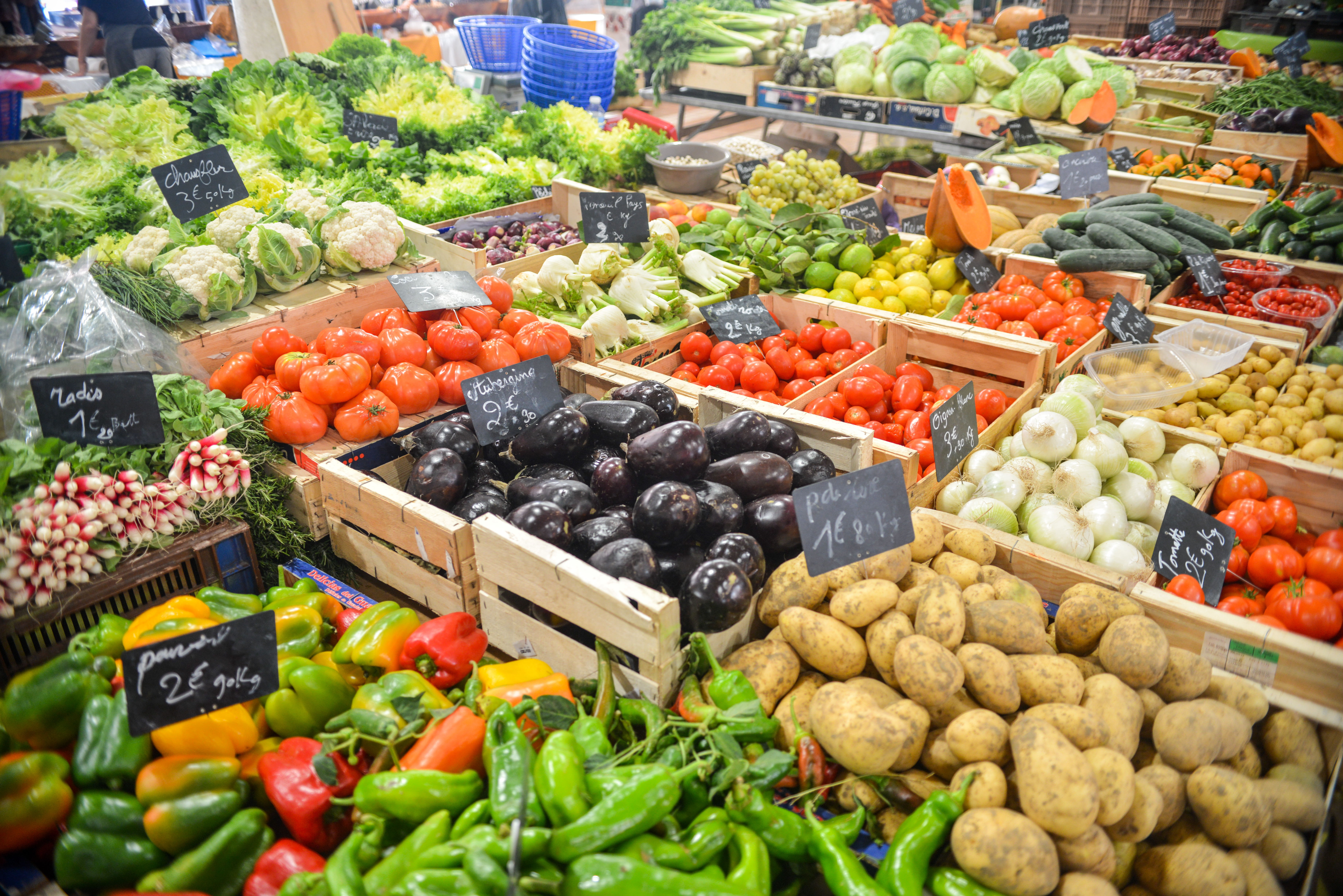 food-healthy-vegetables-potatoes